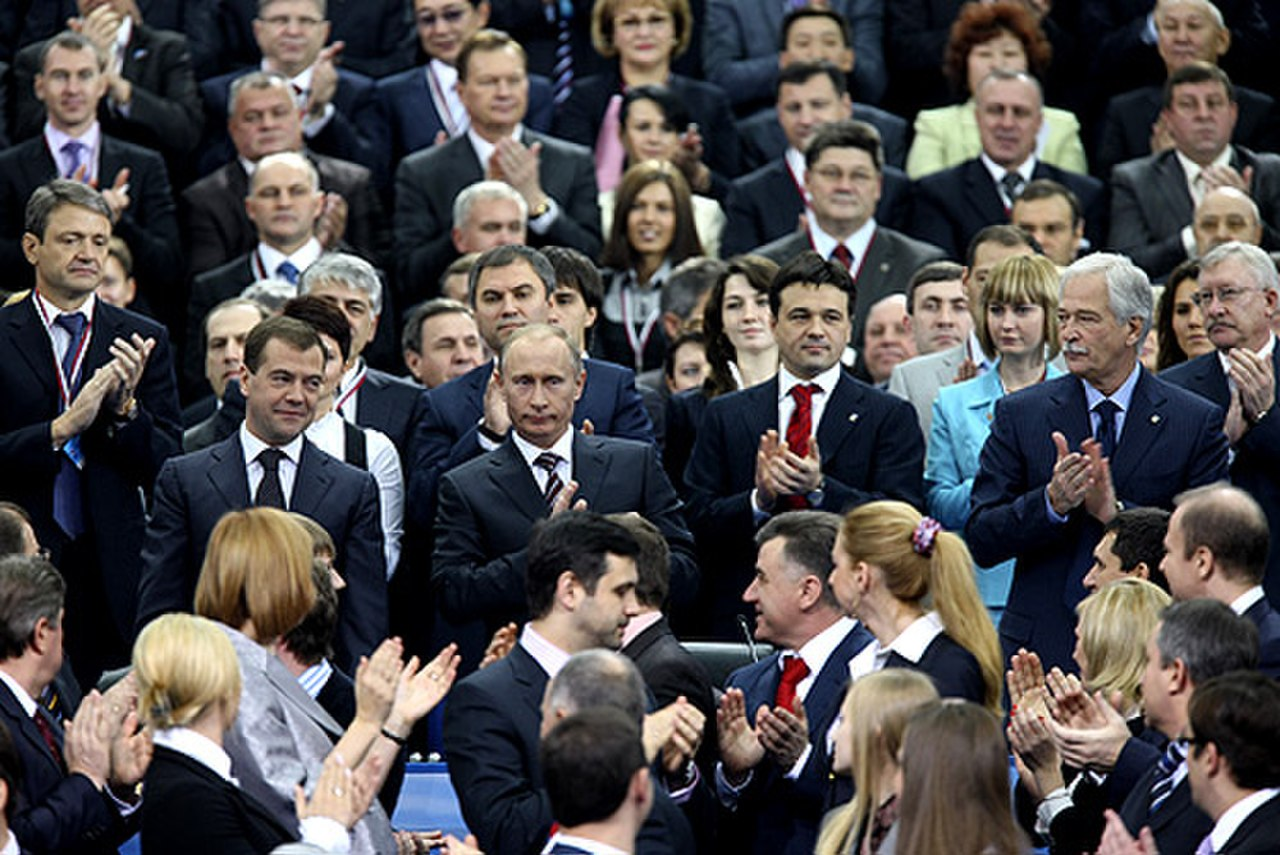 GOSTINY DVOR, MOSCOW. At the 10th United Russia congress.